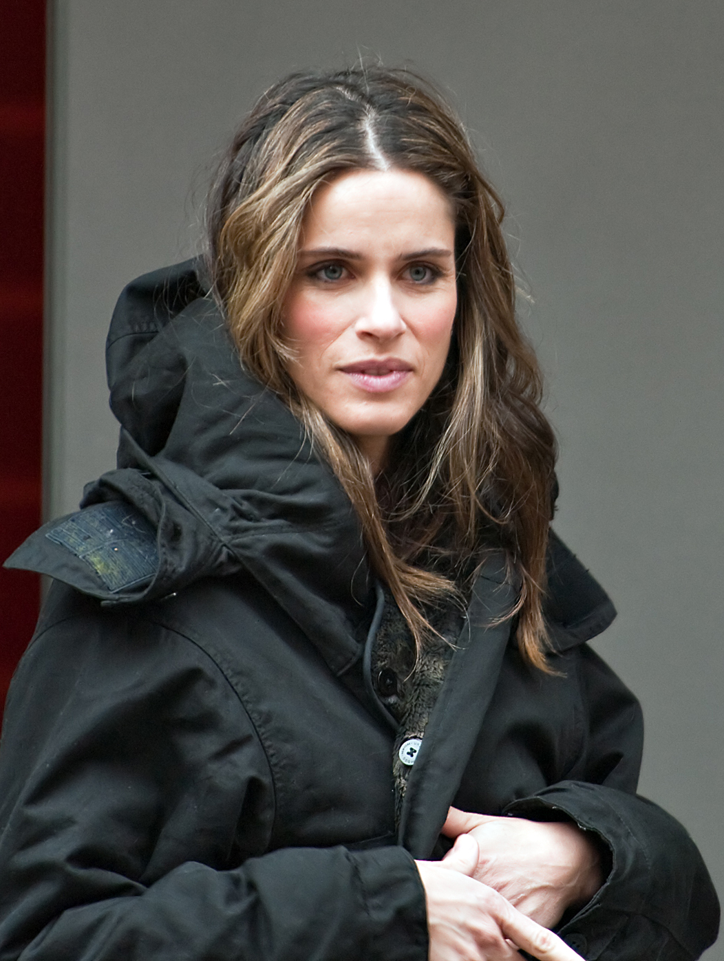 Actress Amanda Peet leaving the press conference for Please Give